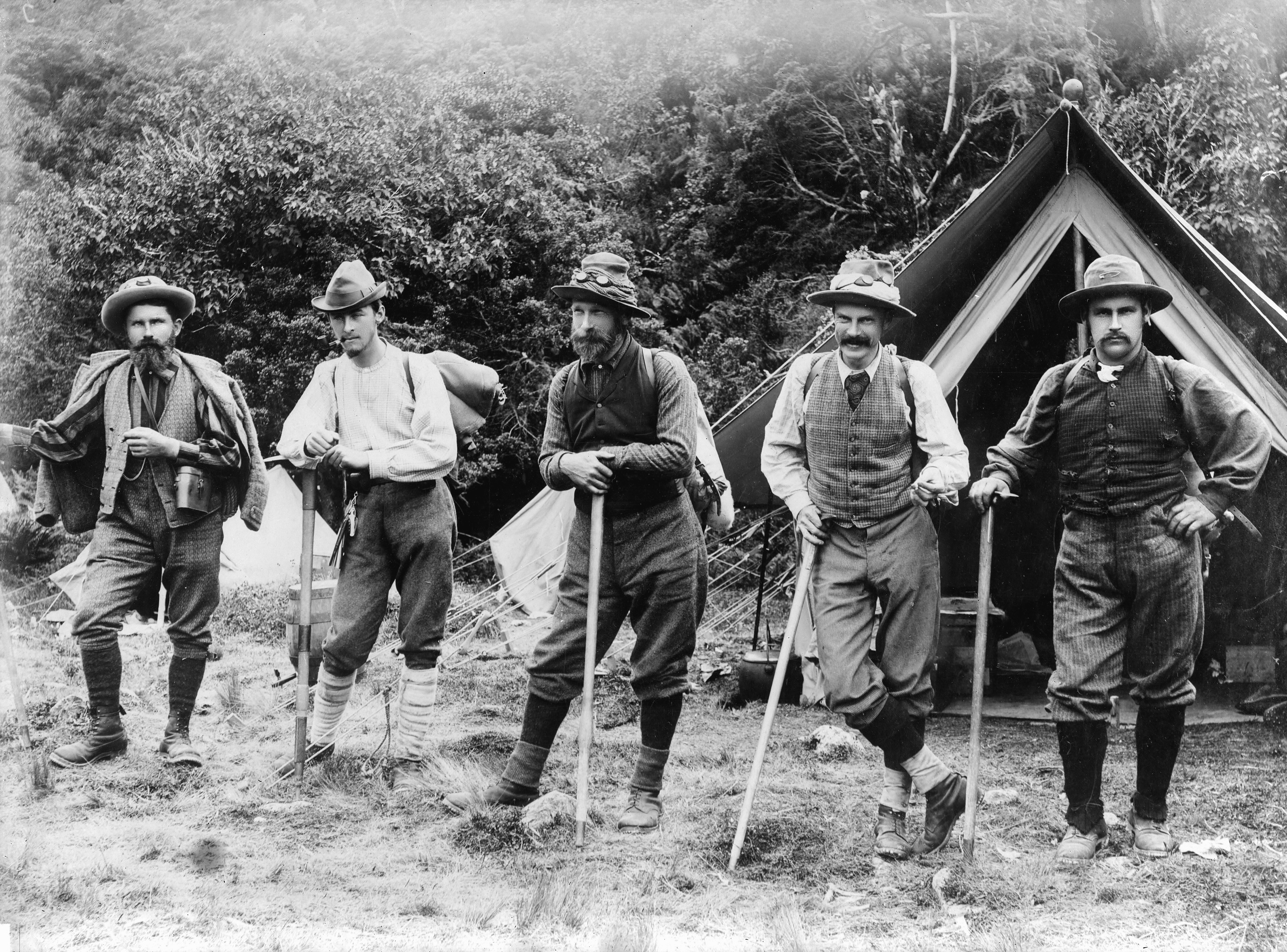 Mountaineers in the Tasman Valley preparing for climb of Mt Sefton or Mt Tasman. From left to right: Matthias Zurbriggen, Edward A Fizgerald, A M Olliver, George Edward Mannering and Jack Adamson.